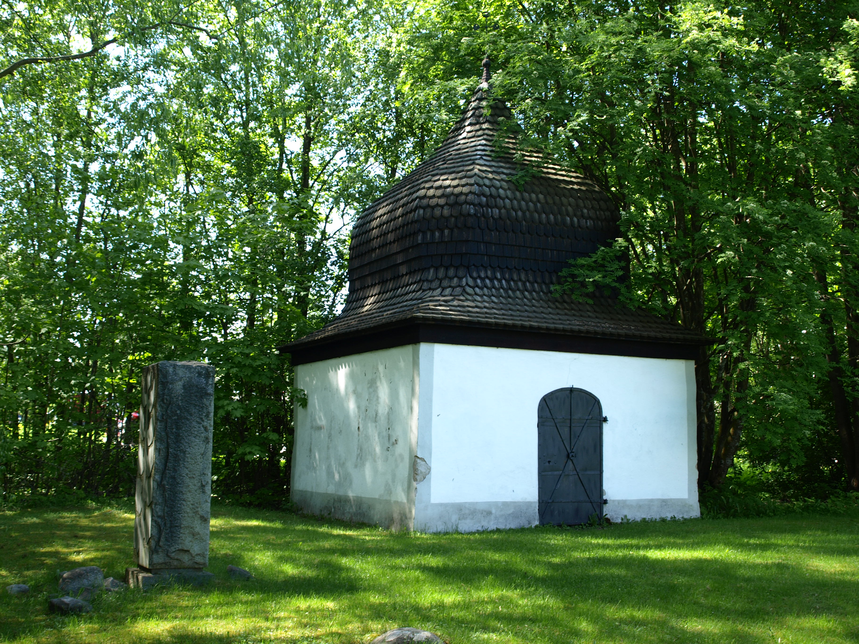 The Gadd Burial Chapel in Tampere, Finland